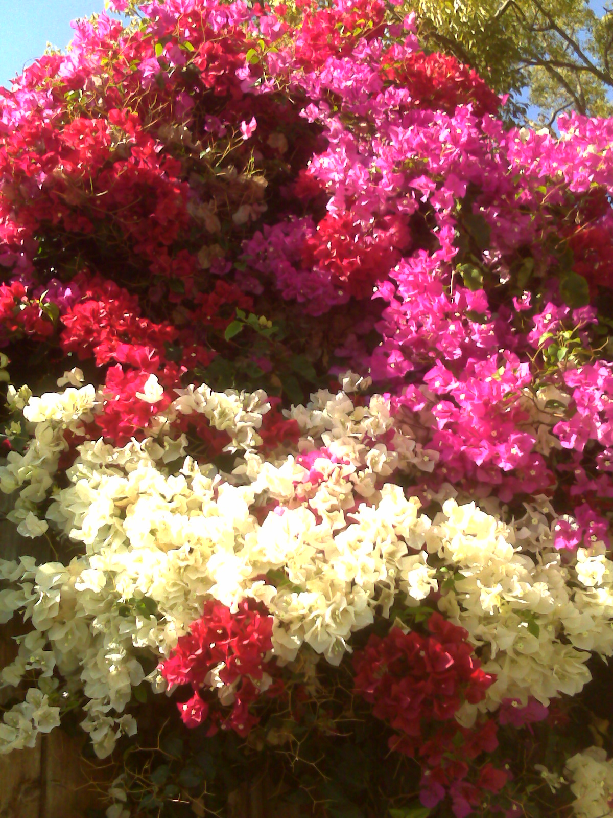 Three colors of bougainvillea adorn a fence in the Miracle Mile district of Los Angeles, California, United States